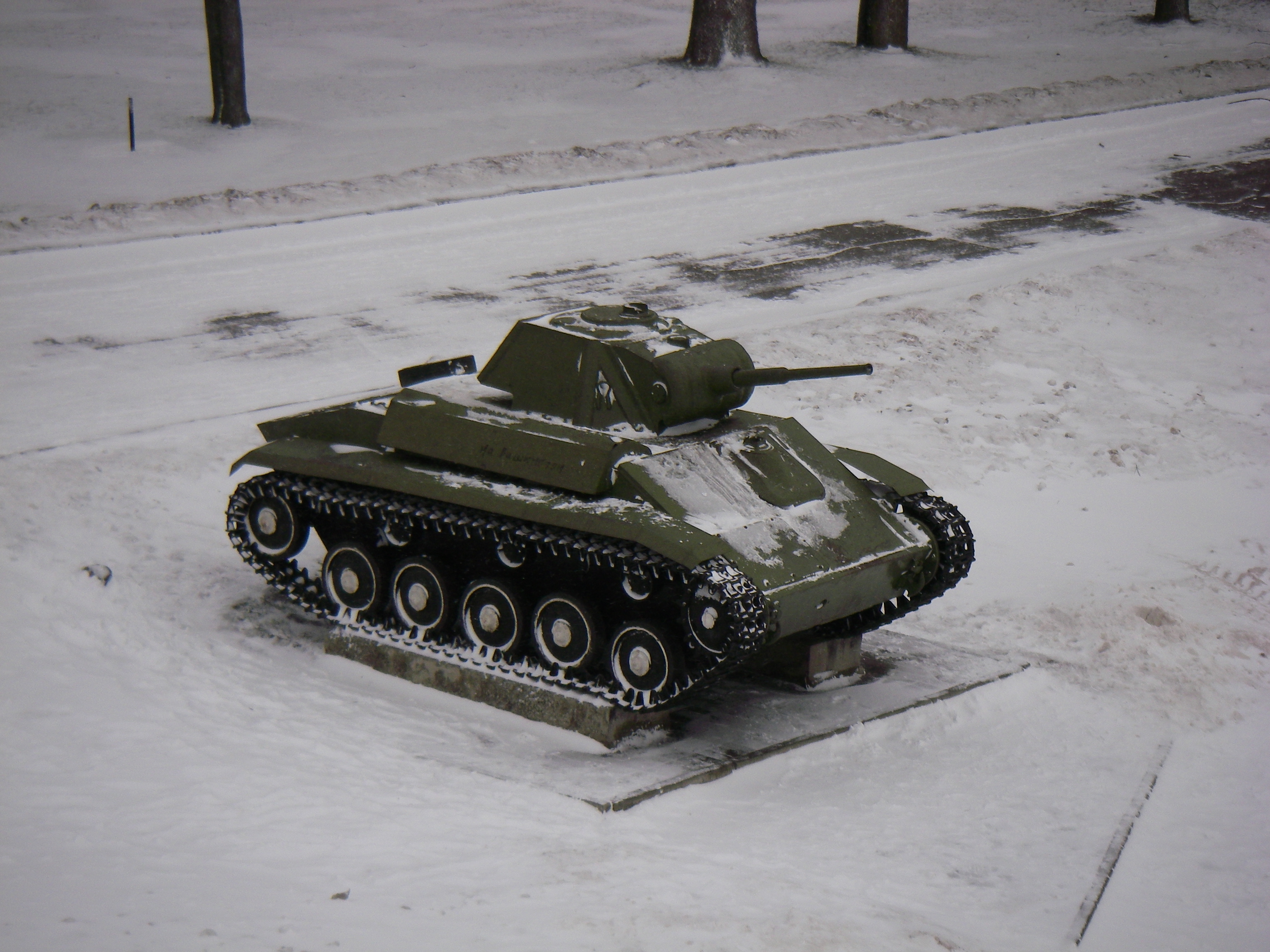 T-70 in Velikiy Novgorod, parked near the World War II peace monument.